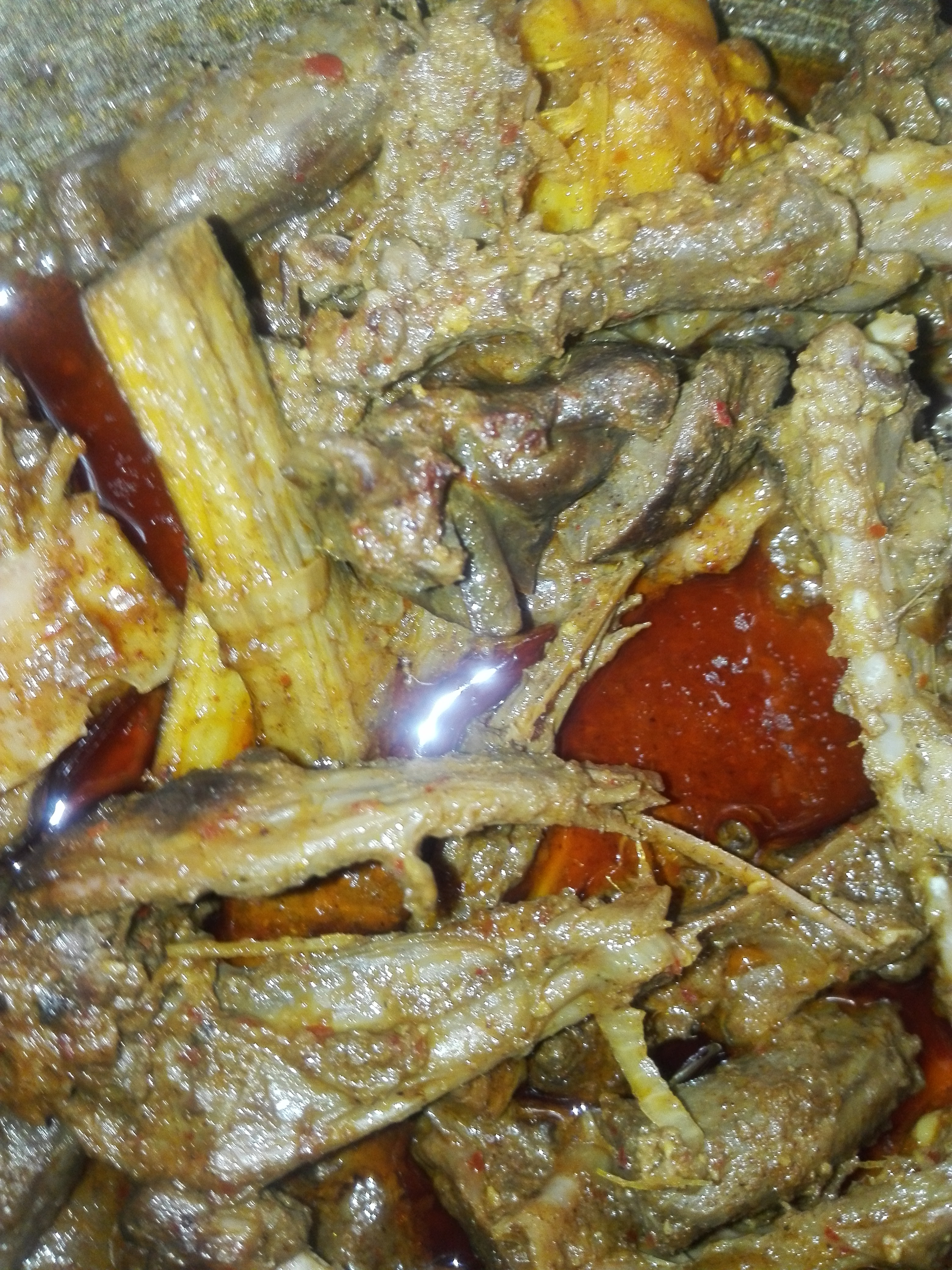 meat with chuijhal